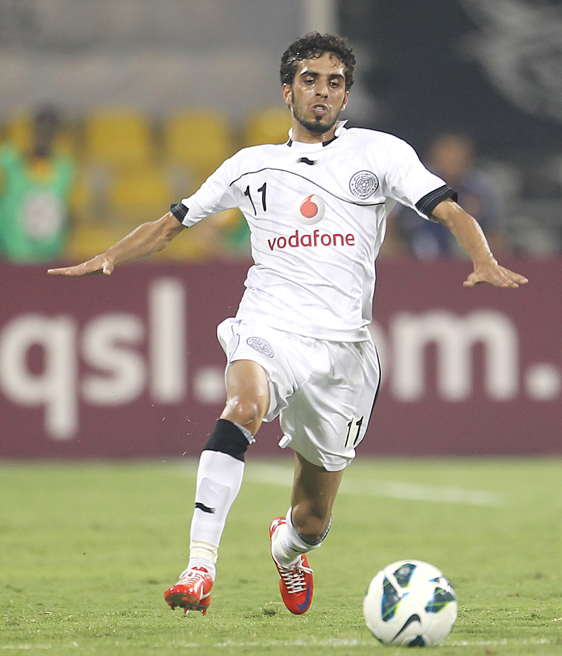 Al Sadd's Hassan Al Haidous in action during a Qatar Stars League match. Picture by Mohan